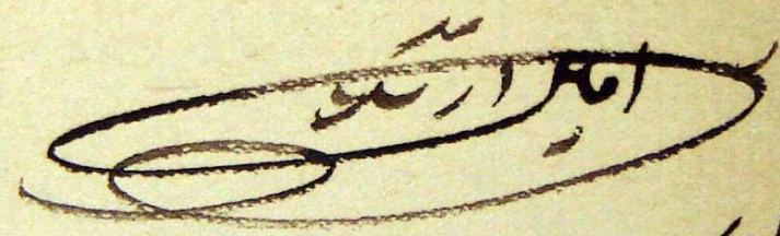 Autograph of Emin Arslan in a copy of his novel "Final de un idilio"